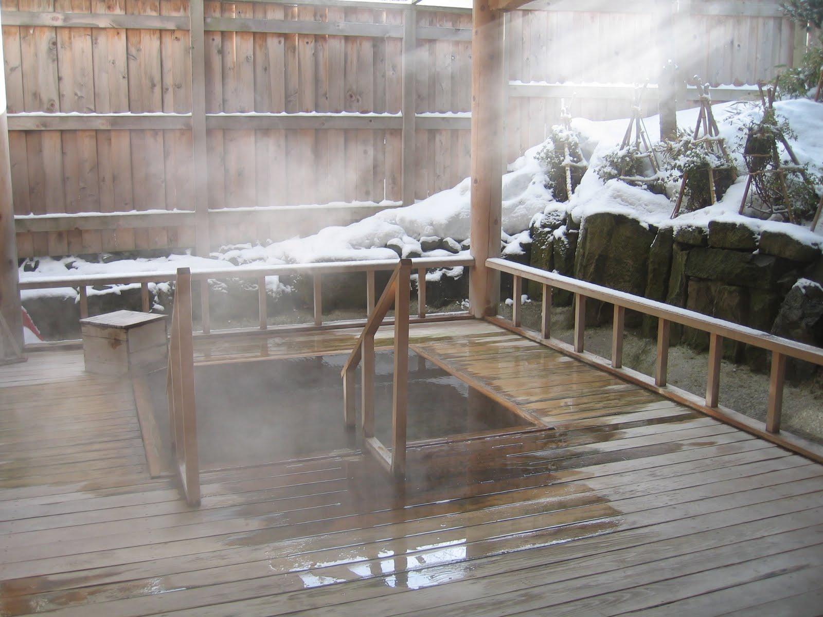 The outer bath of Yanagi no yu, one of the ryokans of Asamushi Onsen.